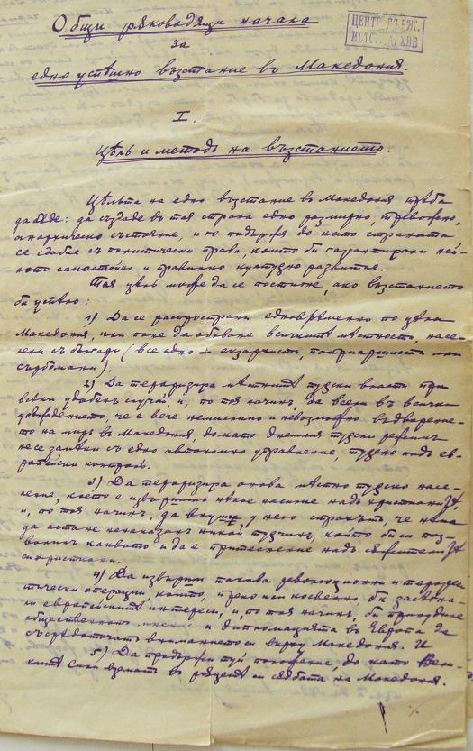 Plan for successful revolt in Makedonia, written by Hristo Matov in May 1903. "Purpose and method of the uprising."